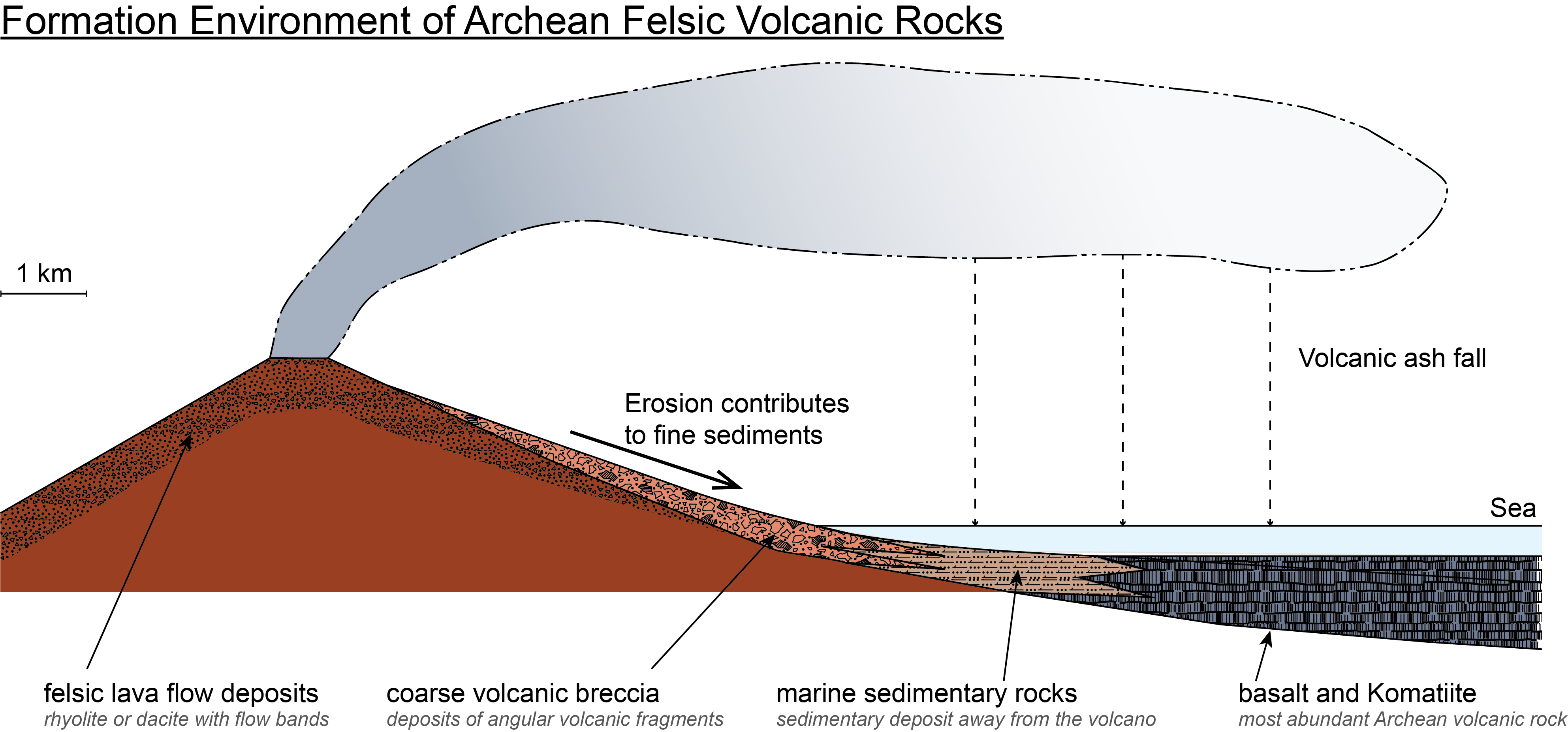 An animation of Archean felsic volcanism